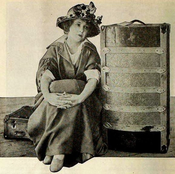 Still (cropped for publication) from the American romance film Luck in Pawn (1919) with Marguerite Clark, on page 38 of the October 1919 Film Fun.